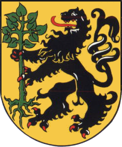 Coat of Arms of Eisfeld